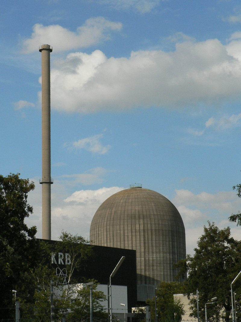 Description: DE: Kernkraftwerk Gundremmingen, der havarierte Block A EN: Nuclear power plant, Gundremmingen, Germany, Block A Source: own work Author:Michael MedingFactory X 20:40, 22 August 2006 (UTC) Date=19.8.2006